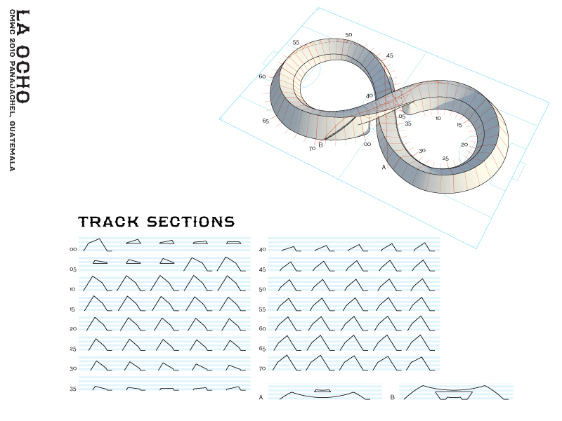 3D model and track sections of the 'La Ocho' figure-8 velodrome track for the CMWC 2010 in Panajachel, Guatemala